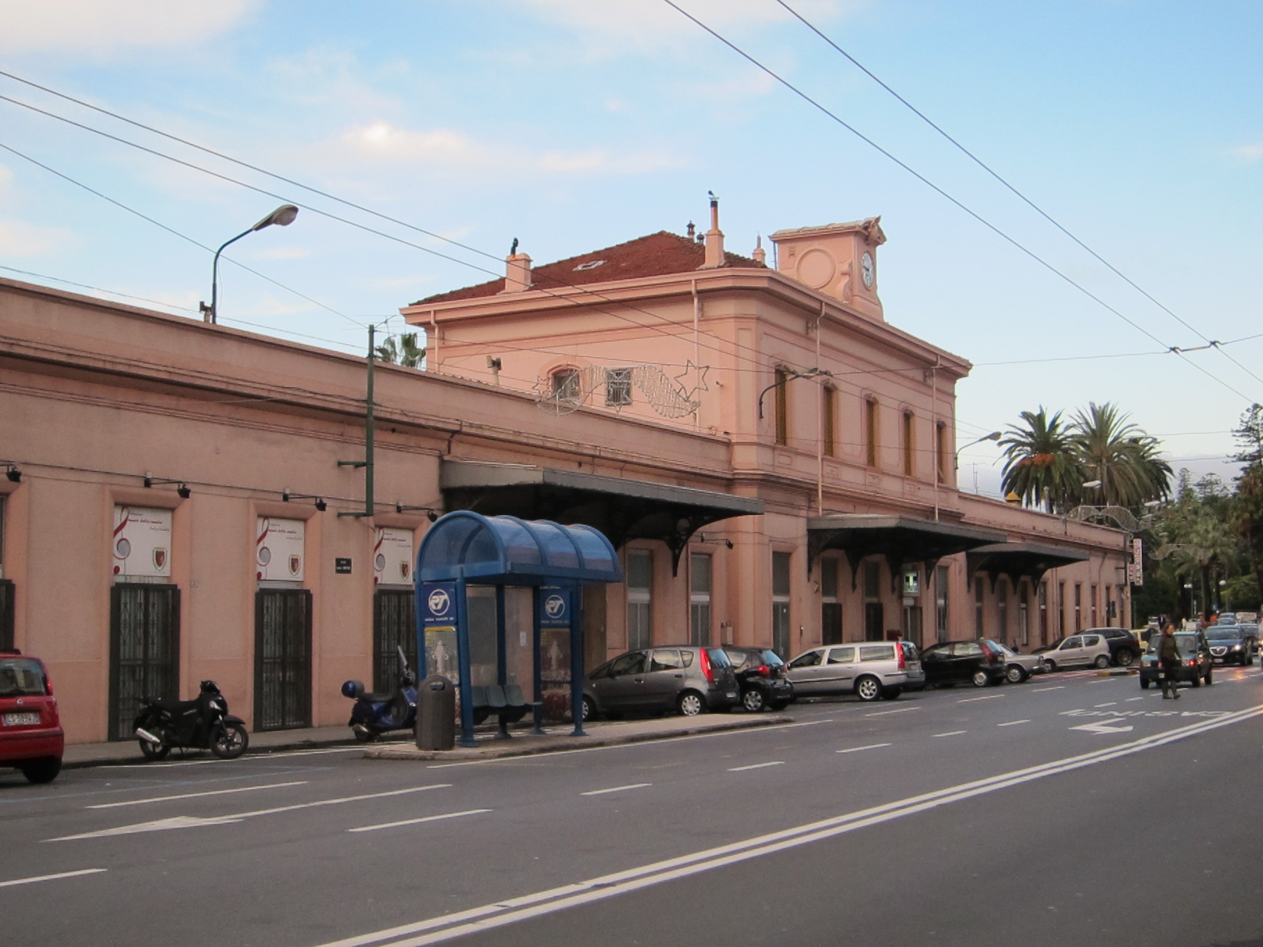 Railway station building in Sanremo, Italy, disused, street view, 2011